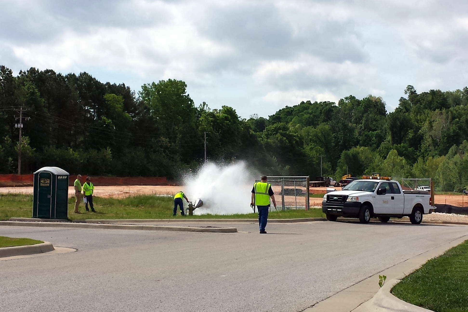 City of Fayetteville Water/Sewer Operations Staff flushes a fire hydrant in Uptown Fayetteville